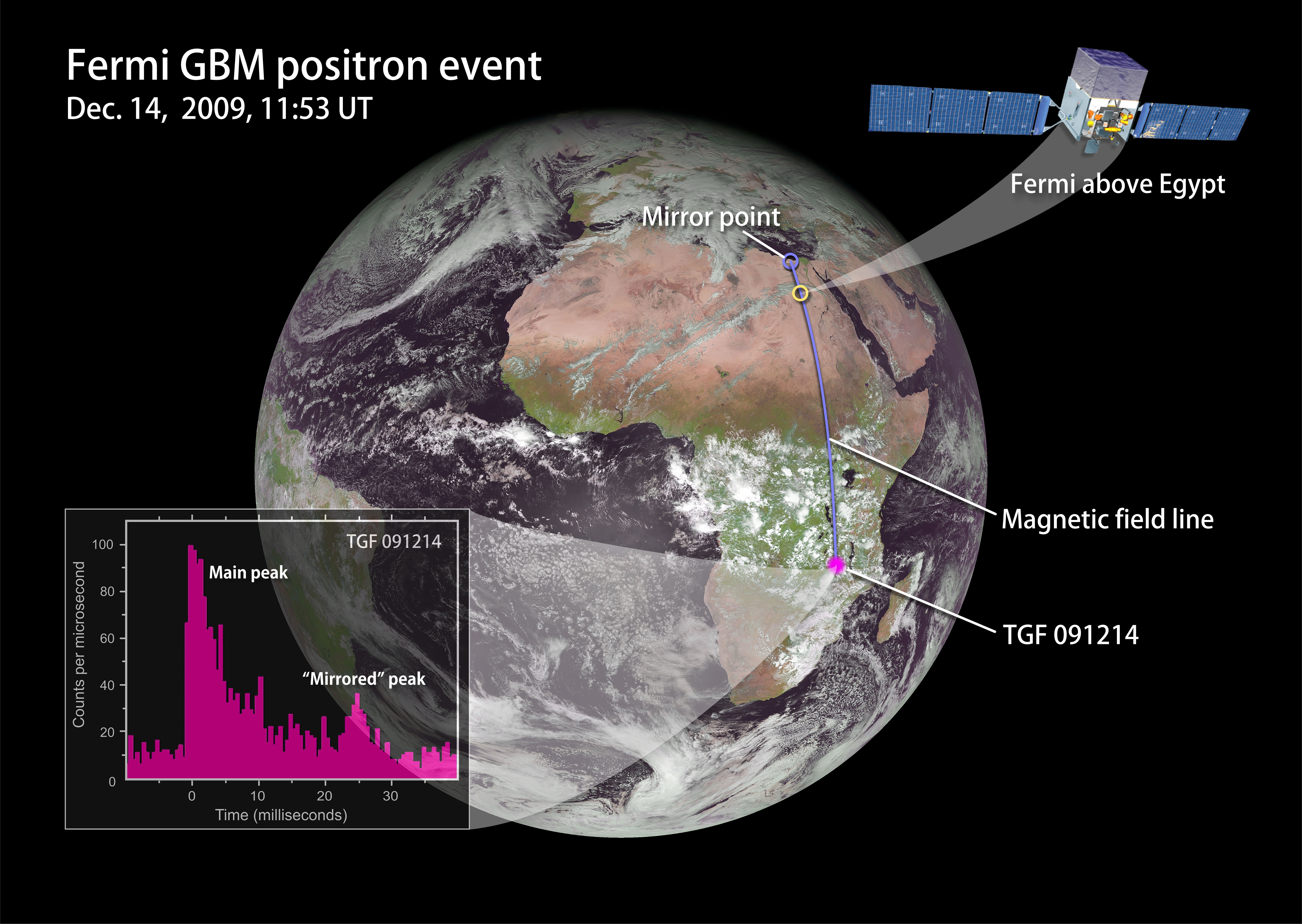 Observation of positrons from a terrestrial gamma ray flash by the Fermi gamma ray telescope.